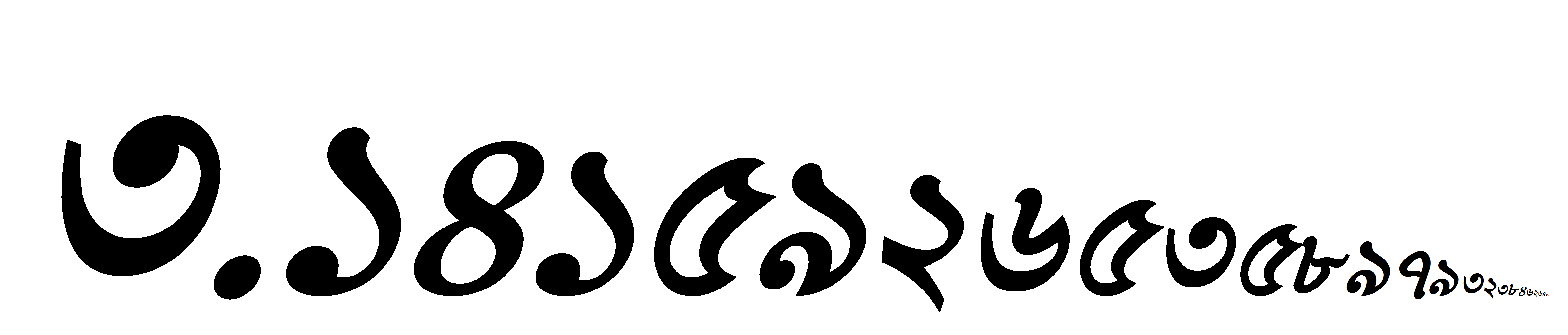 Value of Pi (Assamese numericals)